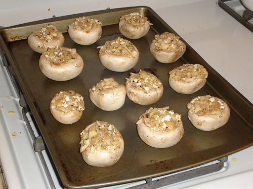 Delicately stuffed with goodness.